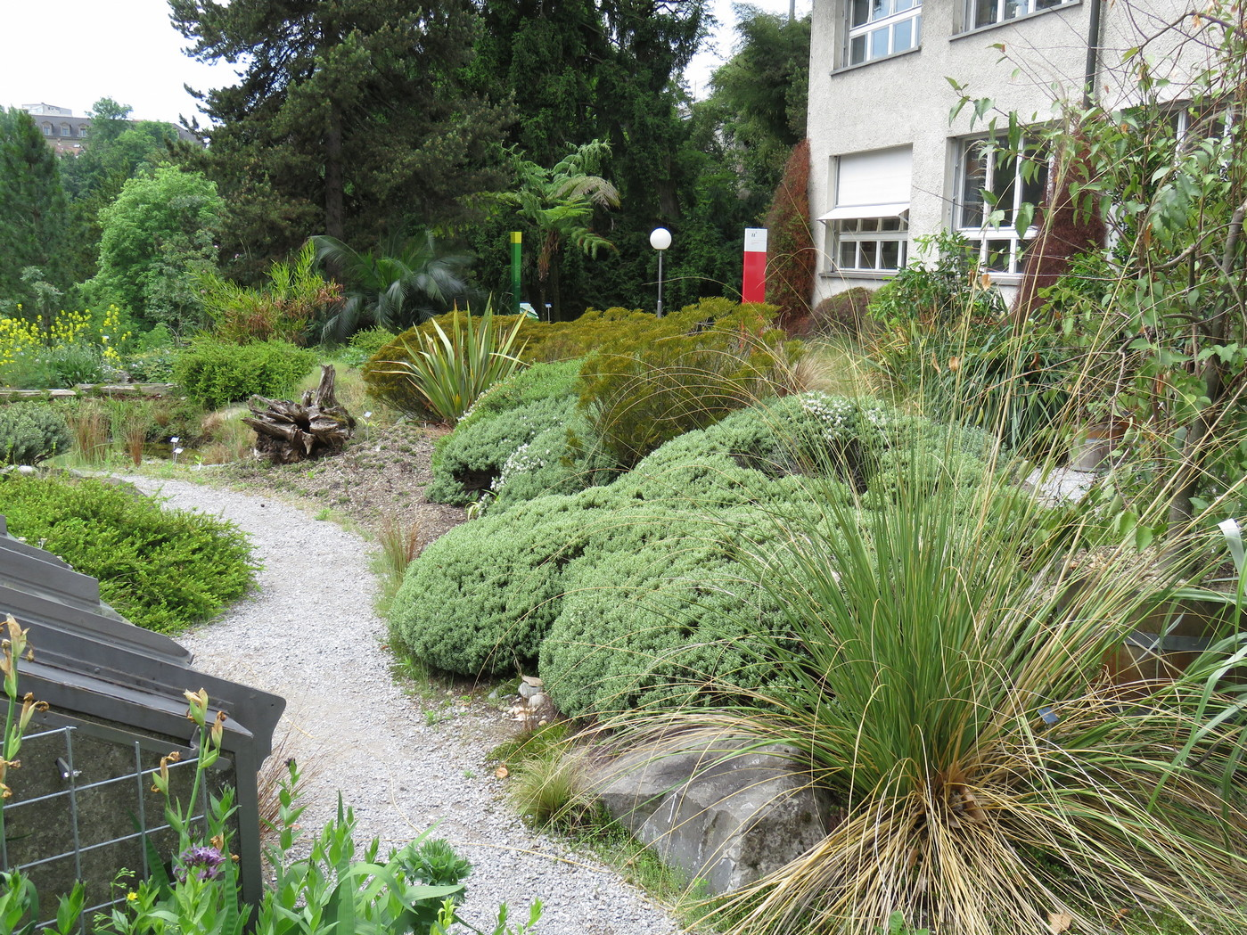 Botanical garden of Bern (CH). The New Zealand part of the garden with lots of Hebe's